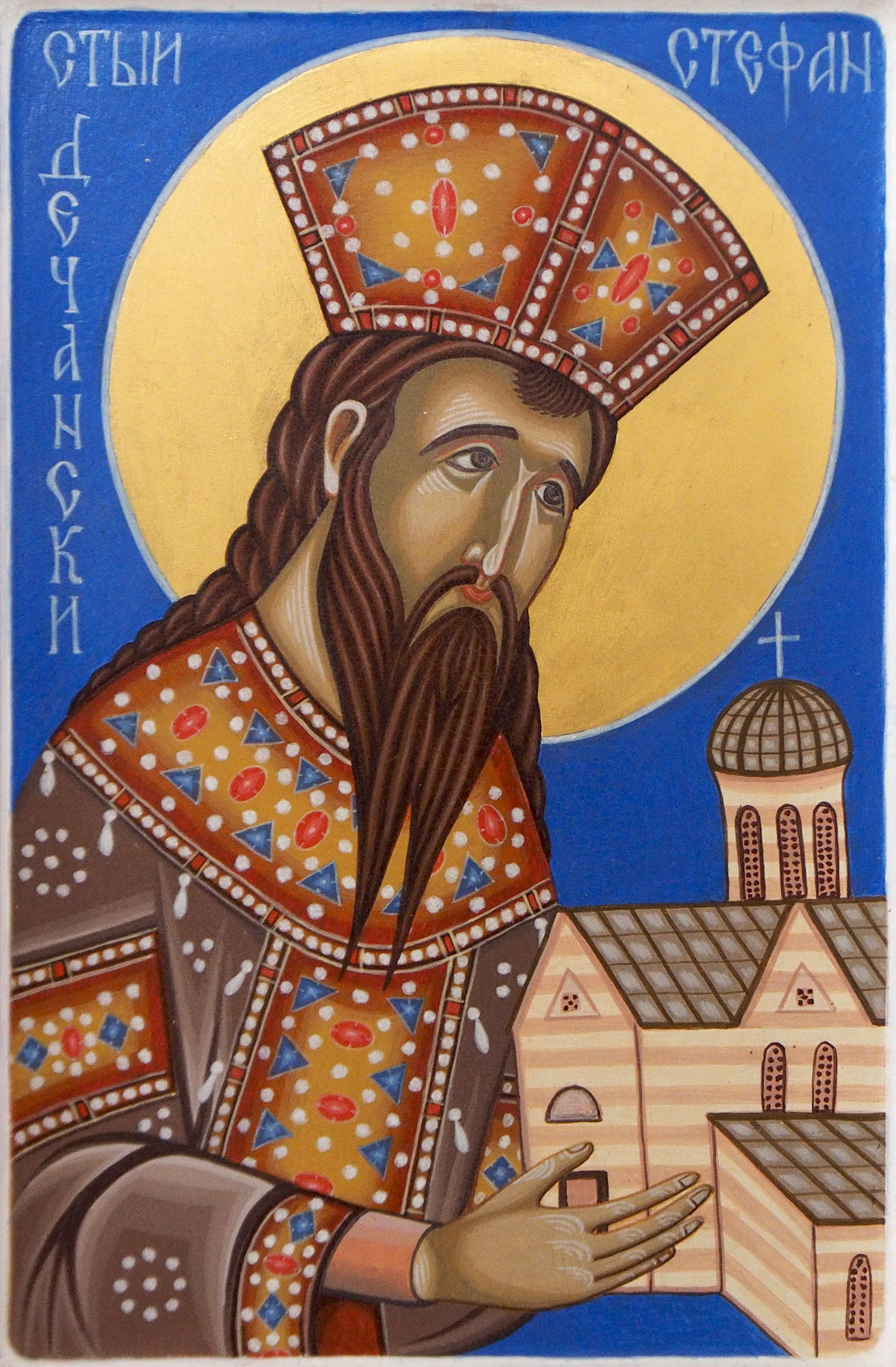 St. Stefan Dečanski (Stefan Uroš III Dečanski of Serbia), icon, Serbian Orthodox monastery, Jasenovac, Croatia. Српски (ћирилица): Икона Свети Стефан Дечански (Манастир Јасеновац), Хрватска. This photograph was taken with an Olympus E-M1